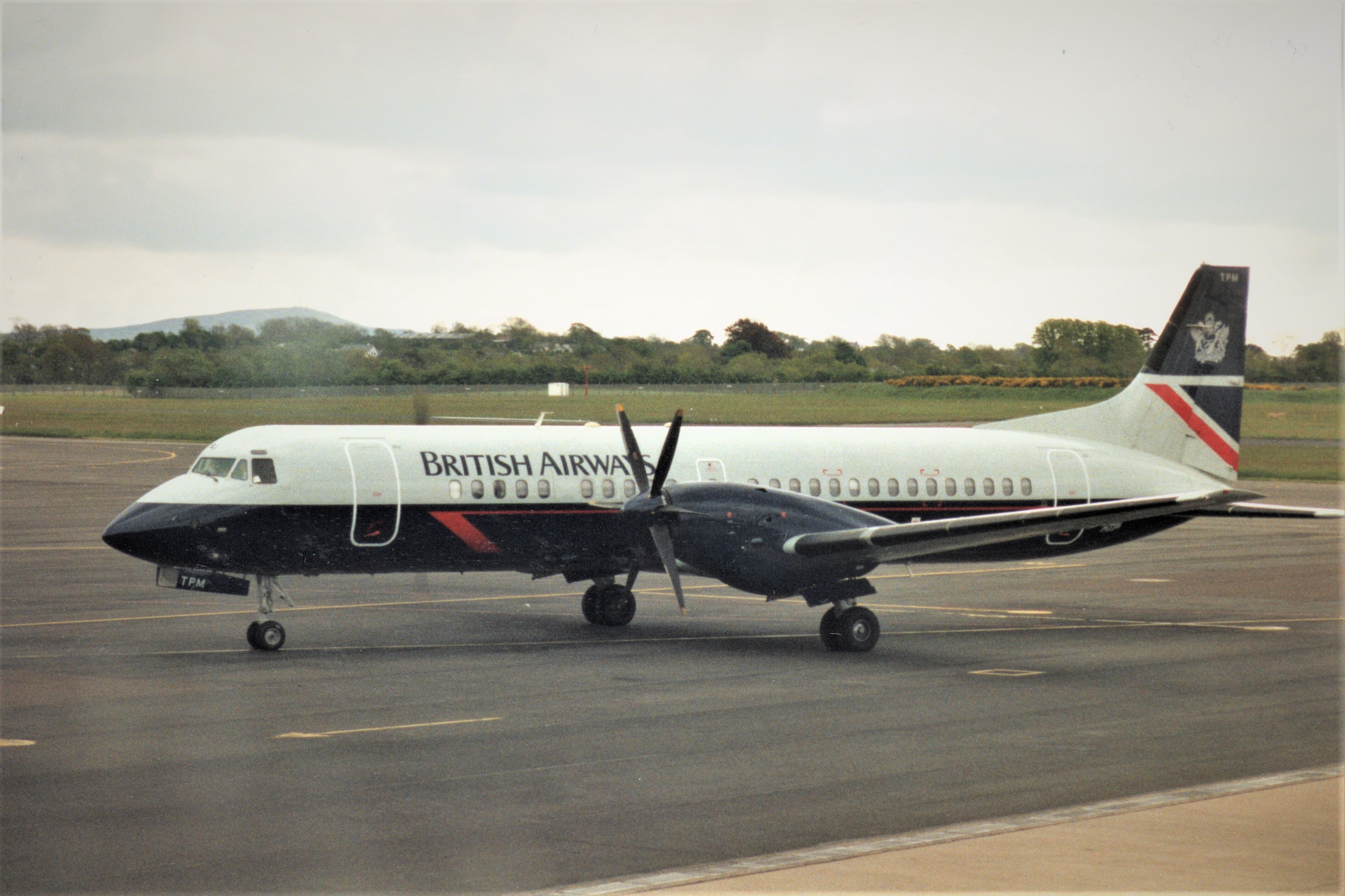 British Airways (G-BTPM) BAe ATP aircraft, Belfast International Airport, Aldergrove, County Antrim, Northern Ireland, May 1994